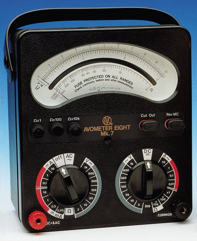 AVO Model 8 Mk7, manufactured until 2008 - multimeter AVO (Amps, Volts and Ohms)